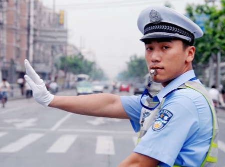 China Traffic Police